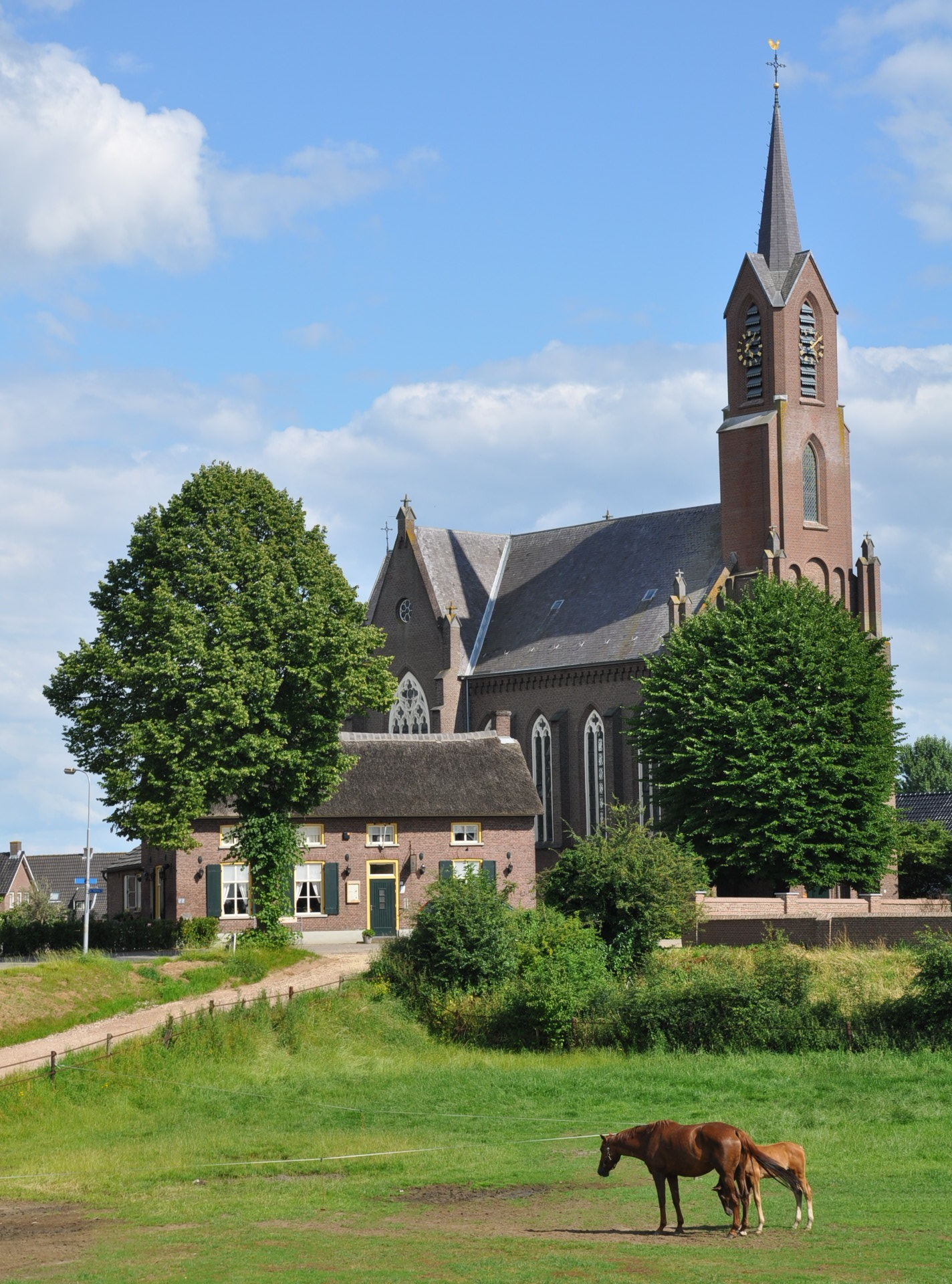 Entering Alem (municipality Maasdriel, Gelderland province, Netherlands), with the village inn and the Saint Hubertus church (built in 1873, Roman Catholic).